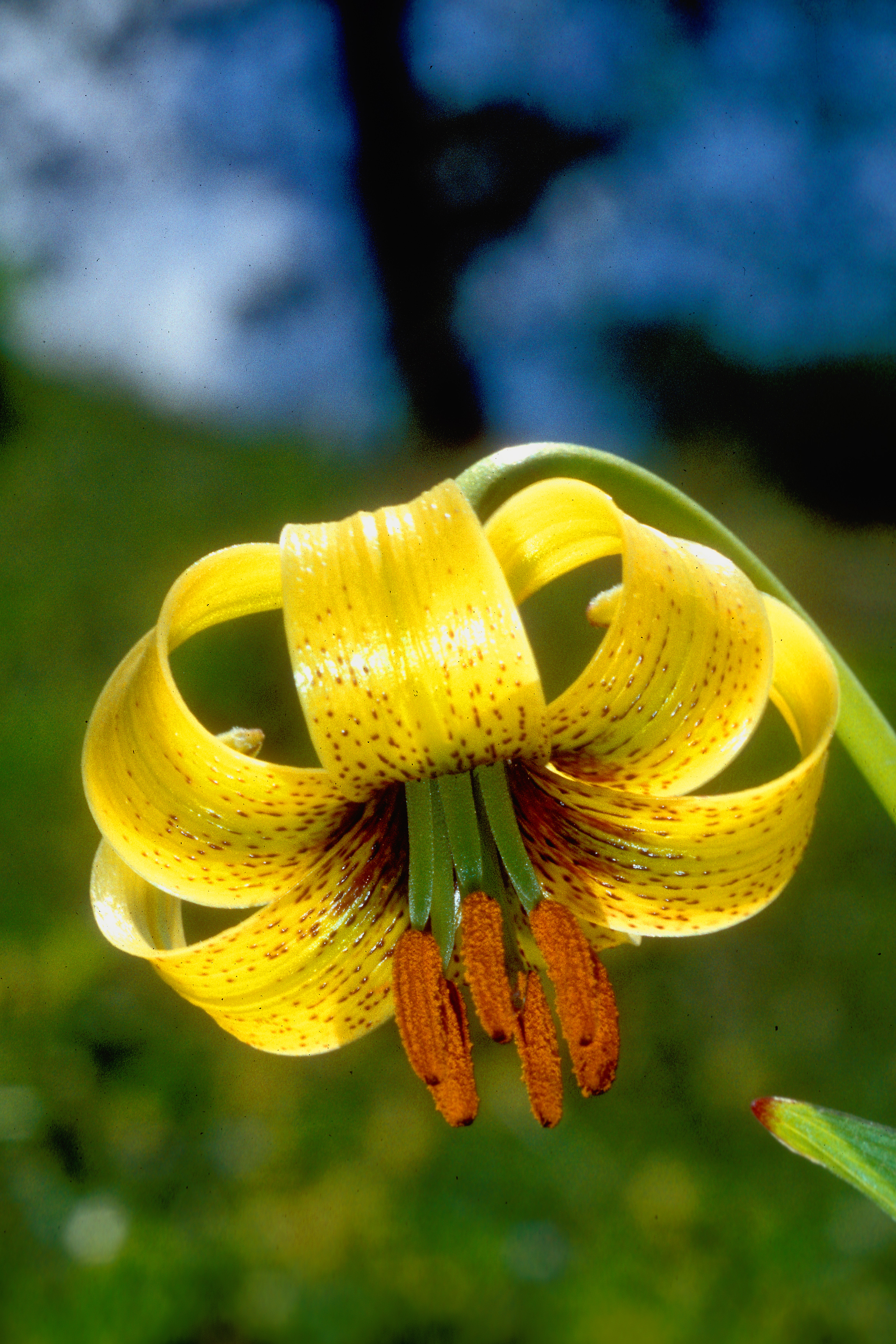 Lilium ponticum in habitat near Ikizdere, Turkey